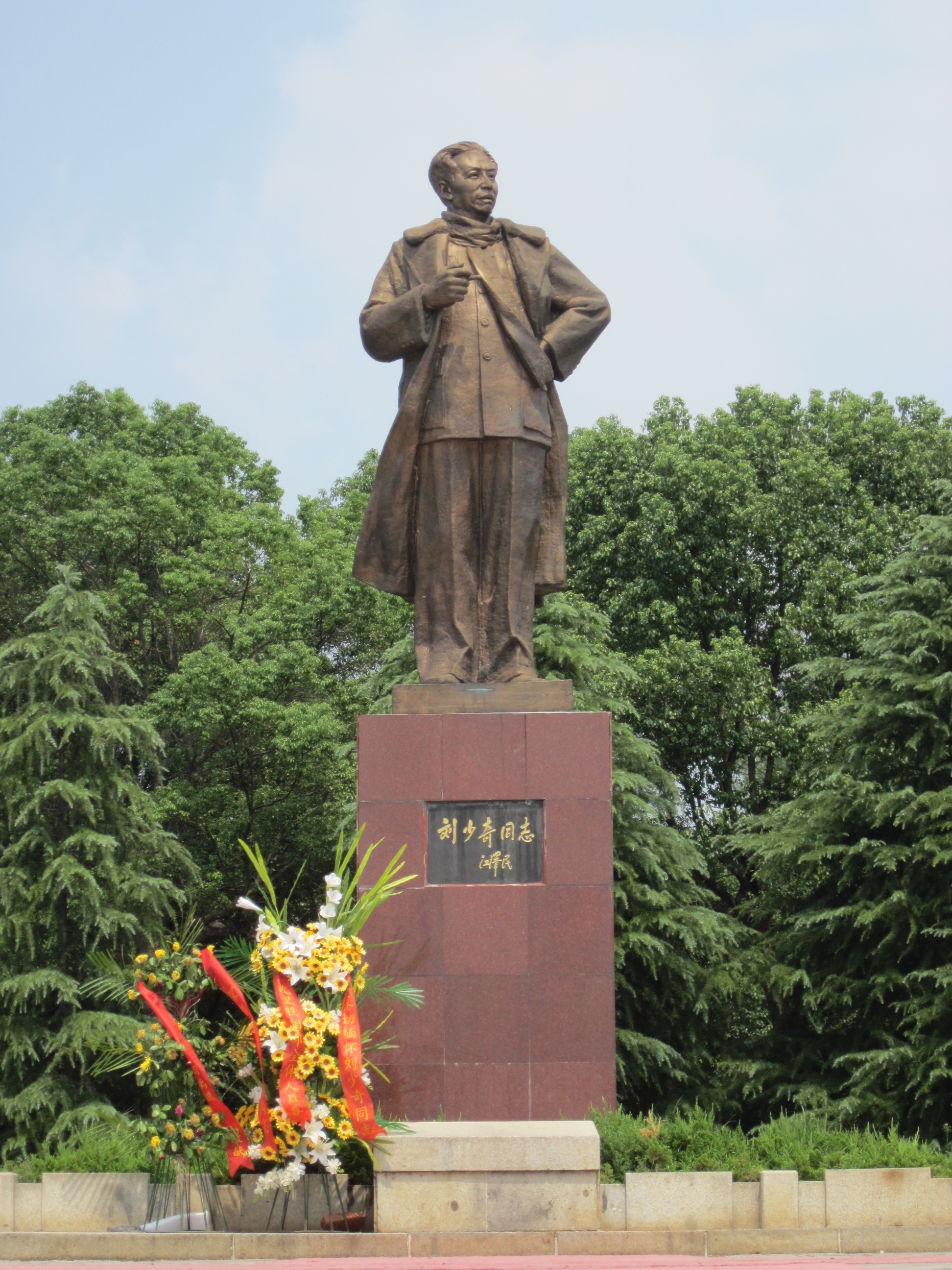 The Liu Shaoqi's Former Residence(simplified